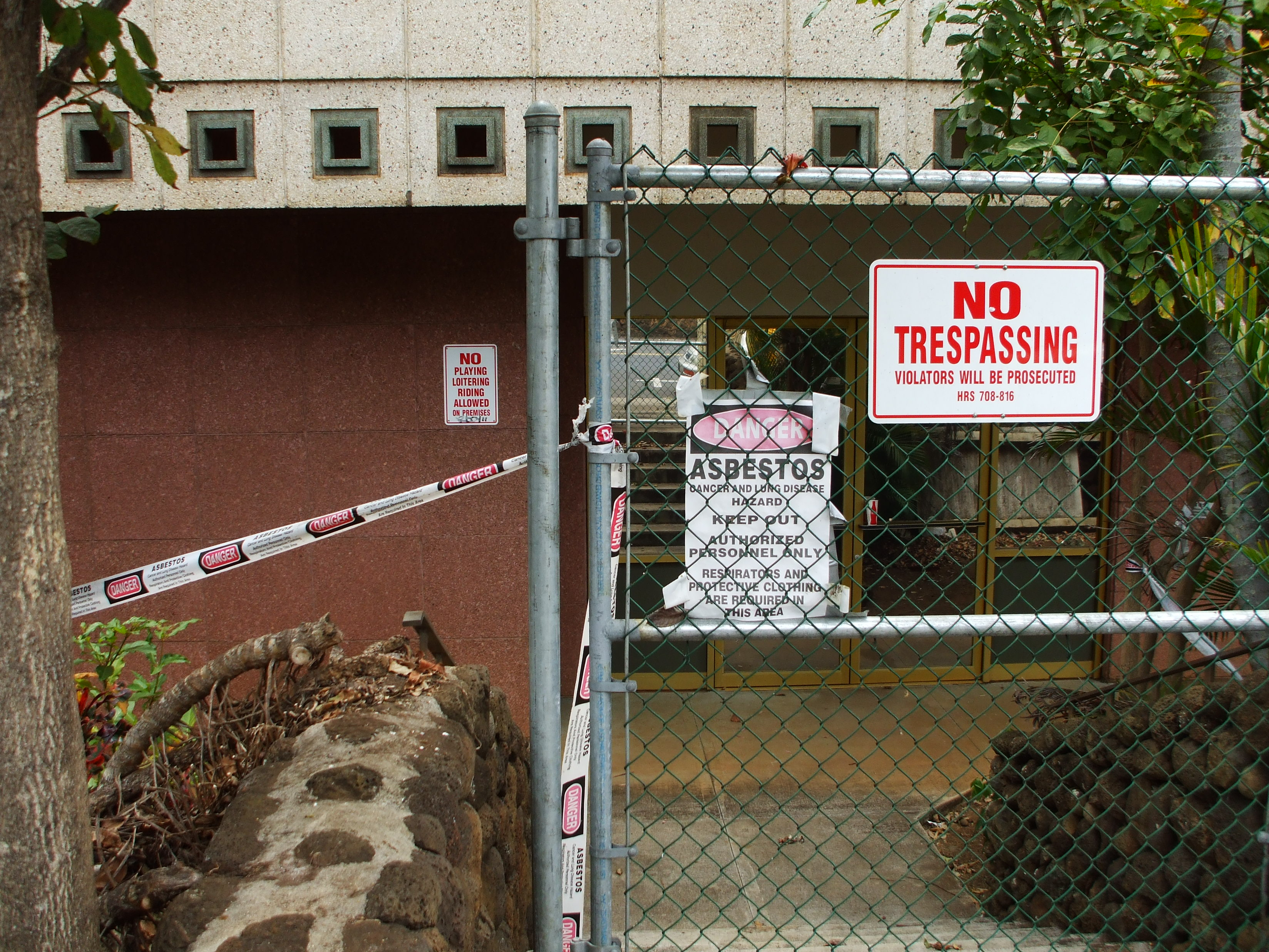 Old Wailuku Post Office taped and closed off due to Asbestos removal.